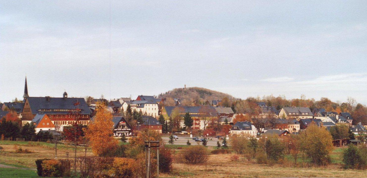 This image shows Altenberg and the Geisingberg (824 m) in the Ore Mountains in Saxony, Germany.